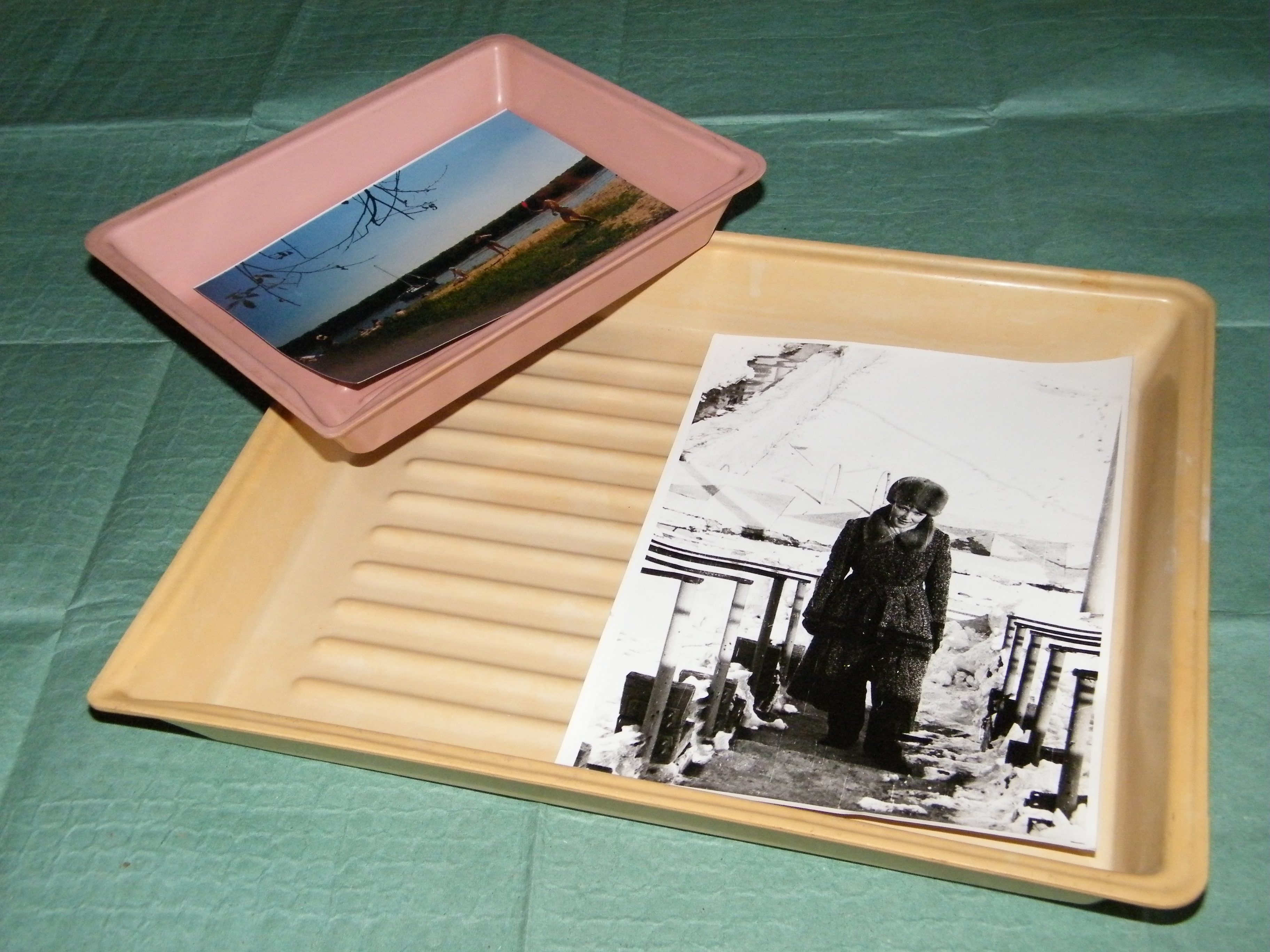 Кюветы для фотобумаги размером 13х18 и 24х30 см. Фотографии, лежащие в кюветах - сделаны мной лично. Чтоб не обсуждали - права, лицензии... Те же самые права и лицензии.